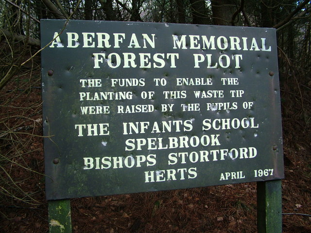 Spelbrook memorial sign This sign is within the Spelbrook memorial woodland